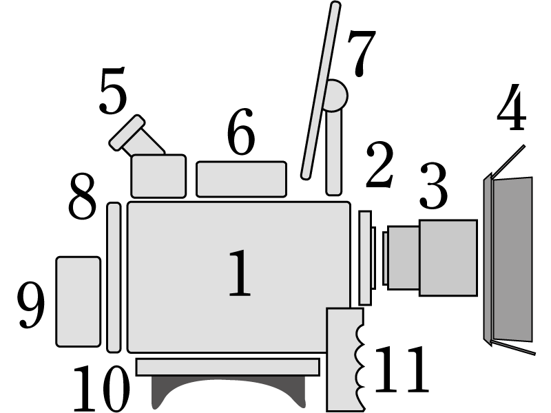 The scheme represents the parts that make up a generic digital camera; file created with a vector drawing program (AI)